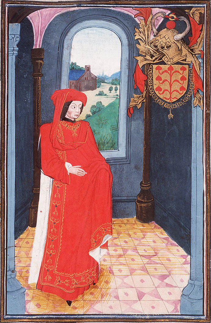 Statuts, Ordonnances et Armorial de l'Ordre de la Toison d'Or (Statutes, Ordonnances and armorial of the Order of the Golden Fleece) Place of origin, date: Southern Netherlands; 1473. Added sections: Southern Netherlands; 1478 or shortly after and 1491 or shortly after Material: Vellum, ff. 86, 249x187 (167x106) mm, 23 lines, littera cursiva (lettre bourguignonne). French. Binding: 18th-century brown leather Decoration: 1 full-page miniature (170x115 mm) with border decoration; 92 miniatures (185/155x120/100 mm); 1 historiated initial (80x90 mm) with border decoration; decorated initials with border decoration (ff., Added section: miniatures ; 4 drawings for miniatures (not finished) Provenance: Presented in 1473 by Gilles Gobet, King of Arms of the Order of the Golden Fleece, to Charles the Bold, Duke of Burgundy and the other Knights during the Chapter of the Order held at Valenciennes; Treasure of the Golden Fleece, Brussls; taken away by the Treasurer C.-F. Humyn (d. 1735) or his daughter C.Ch. de Corte; by legacy to her daughter M.-L. de Corte, wife of Ph.-E. de Poederlé; purchased in 1781 at the Poederlé sale by G.-J- Gérard of Brussels; acquired in 1832 as part of the Gérard collection (no. A 27)